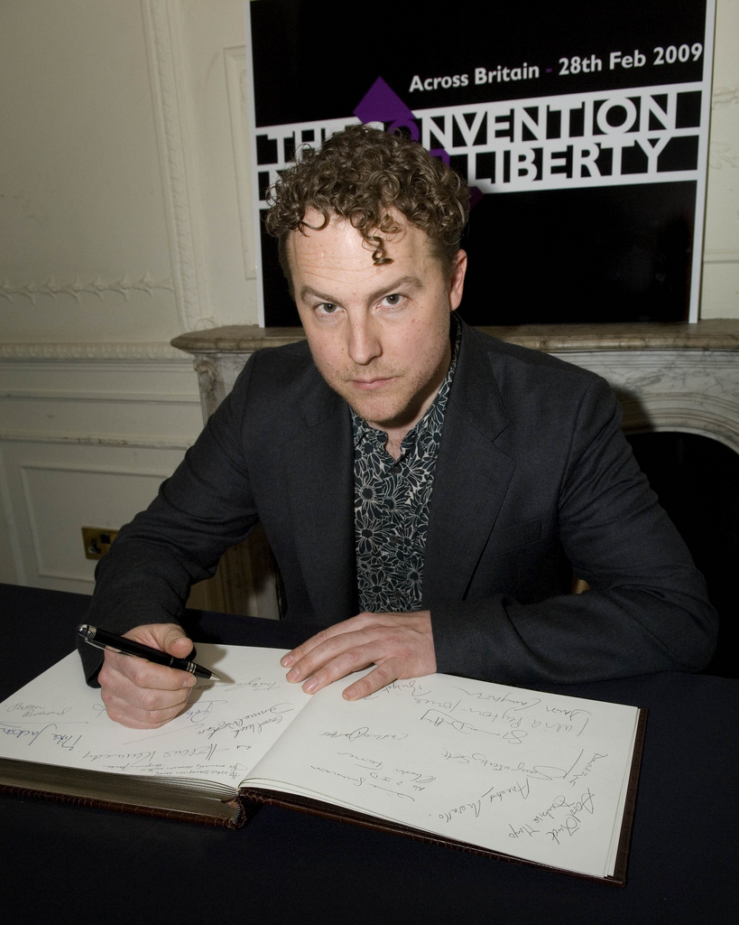 Sam West -London, England. He signs to pledge support to The Convention on Modern Liberty at the start of a campaign. The launch took place at The Foreign Press Association in Pall Mall, London on 15 January 2010.